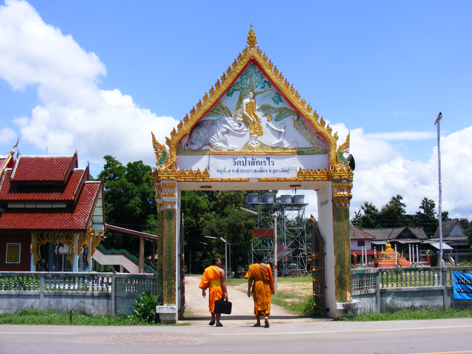 Wat Hua Hat Location: Wat Hua Hat Ban Hua Hat, Khung Taphao subdistrict, Mueang Uttaradit, Uttaradit Province, Thailand.